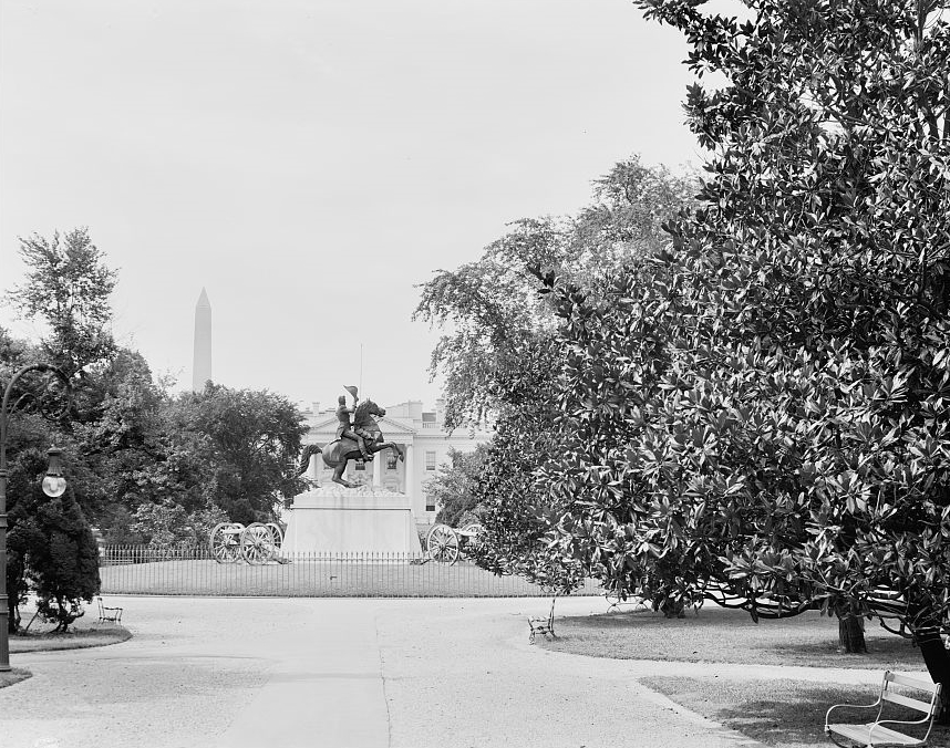 Jackson's Memorial, Lafayette Park [i.e. Square], Washington, D.C.